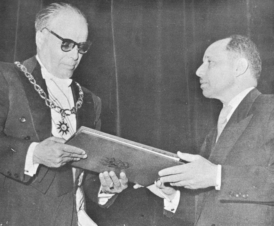 Tunisian president Habib Bourguiba signs the first constitution of Tunisia on the 1st June 1959.